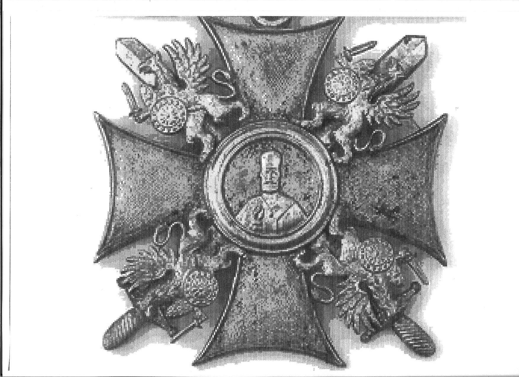 The Badge of the Russian Exile Order of St. Nicholas with Griffins